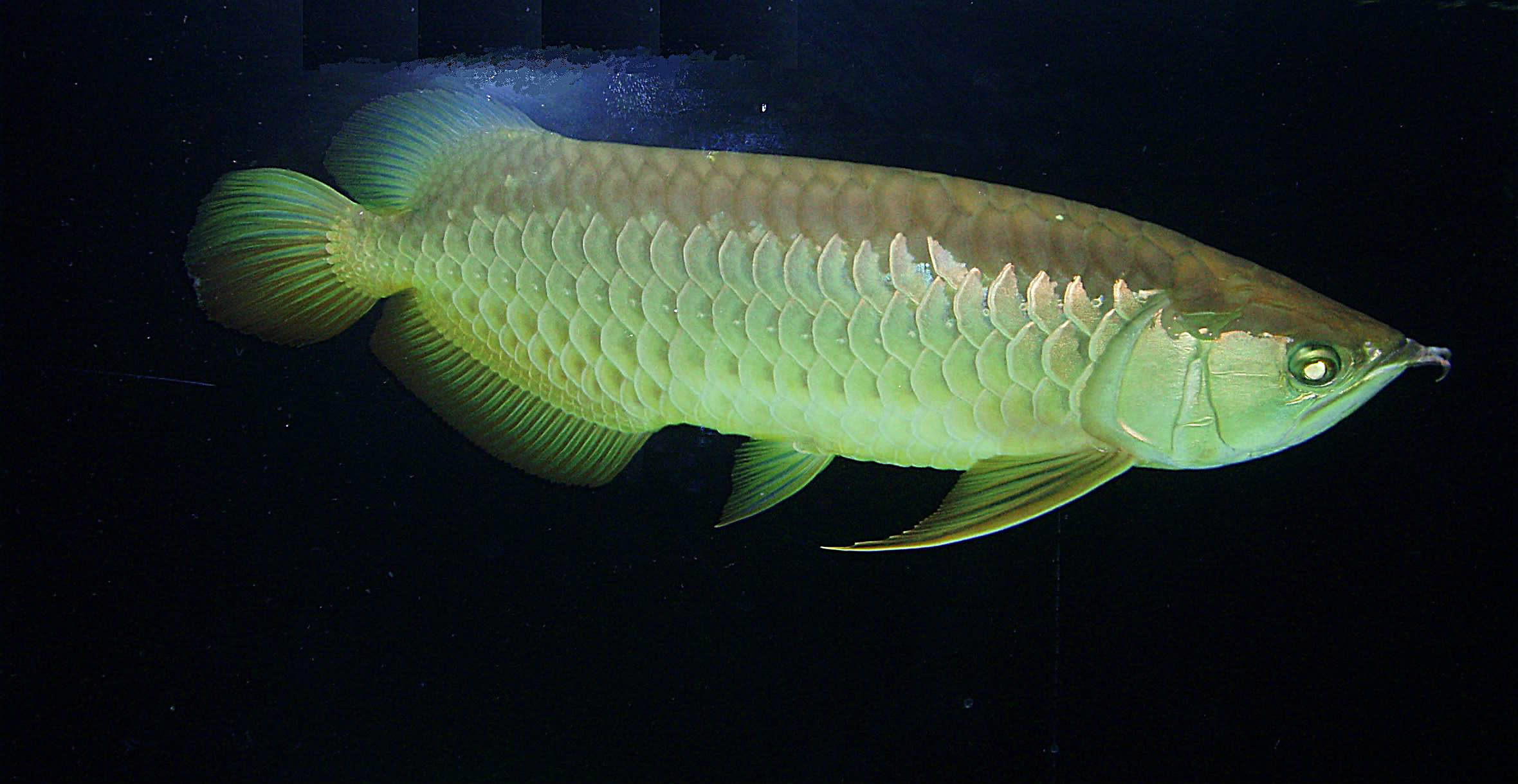 Asian Arowana （Scleropages formosus）